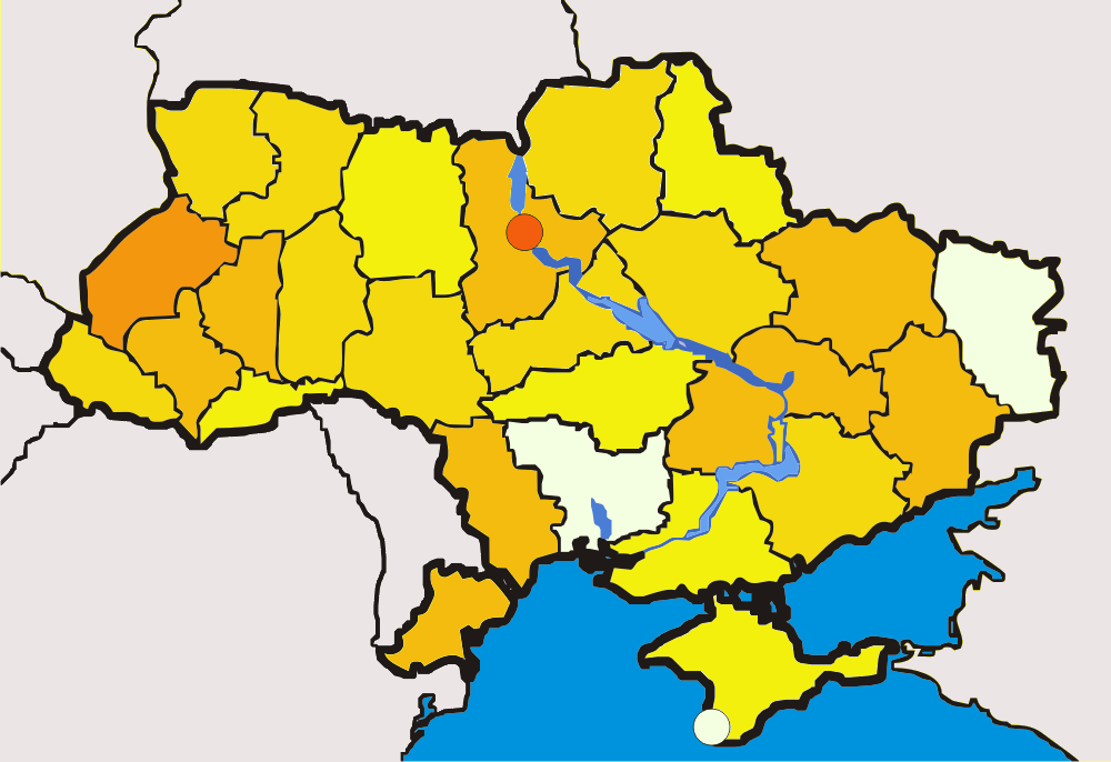 Map of Ukrainian wikipedian according to regions. SVG-version.